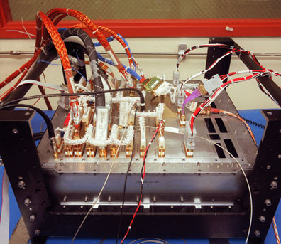 The electronics of the Cassini radar